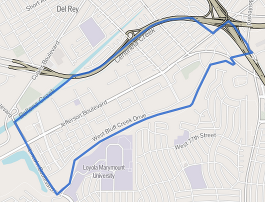 A map of Playa Vista — a neighborhood in Westside Los Angeles, California. (Taken from the Los Angeles Times website) This map may be incomplete, and may contain errors. Don't rely solely on it for navigation.